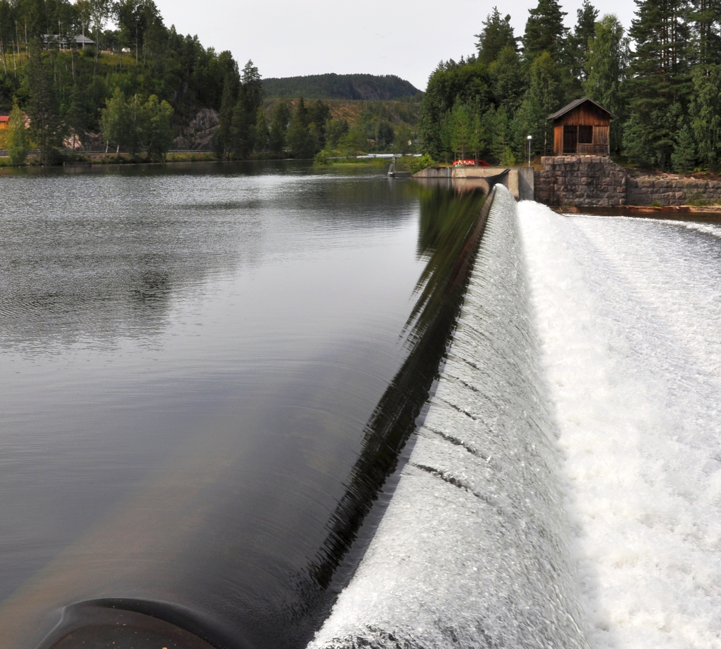 Rubber dam at Kjeldal Locks, Telemark, Norway (Telemark Canal)